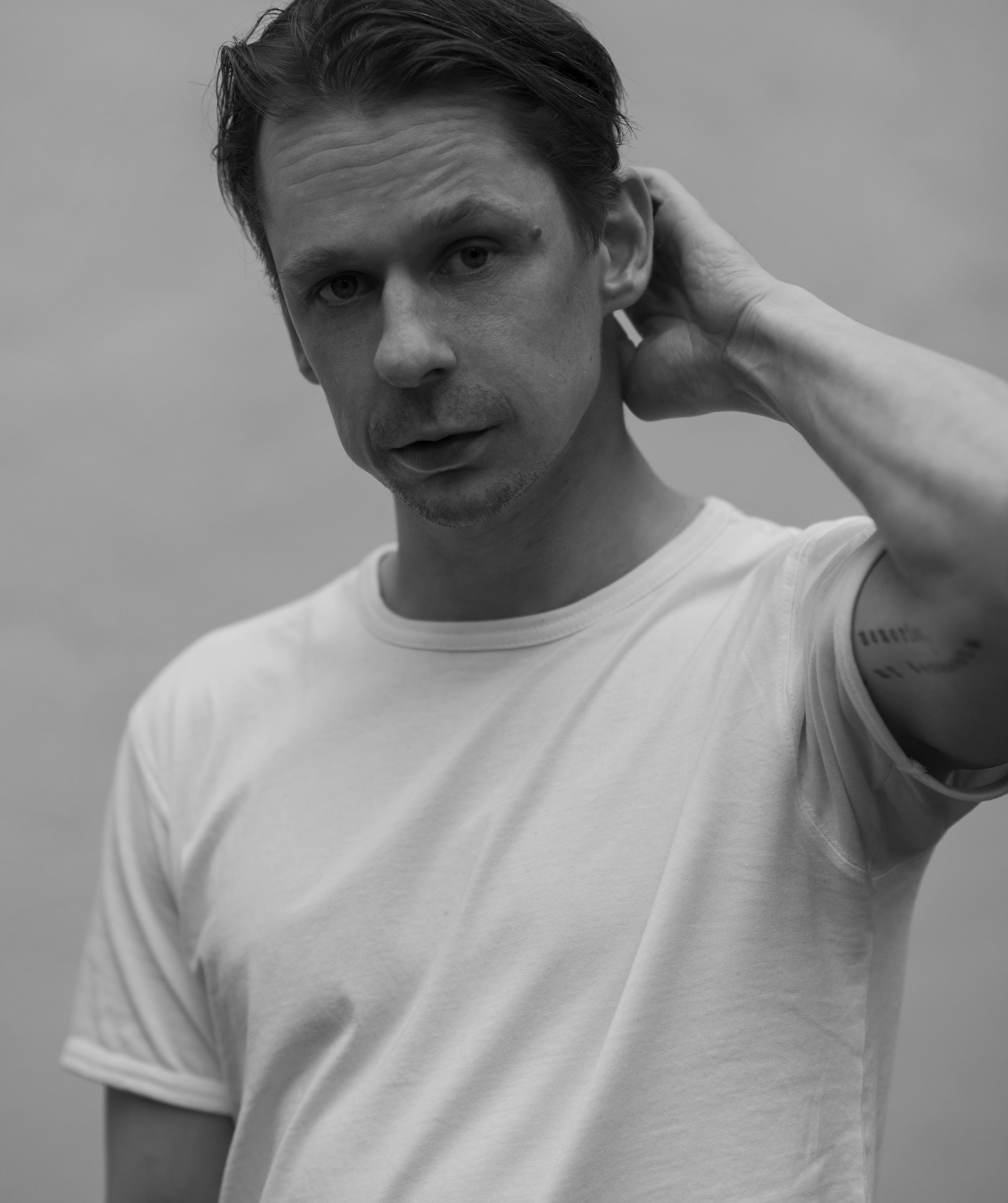 Peter Viitanen, Stockholm,2020